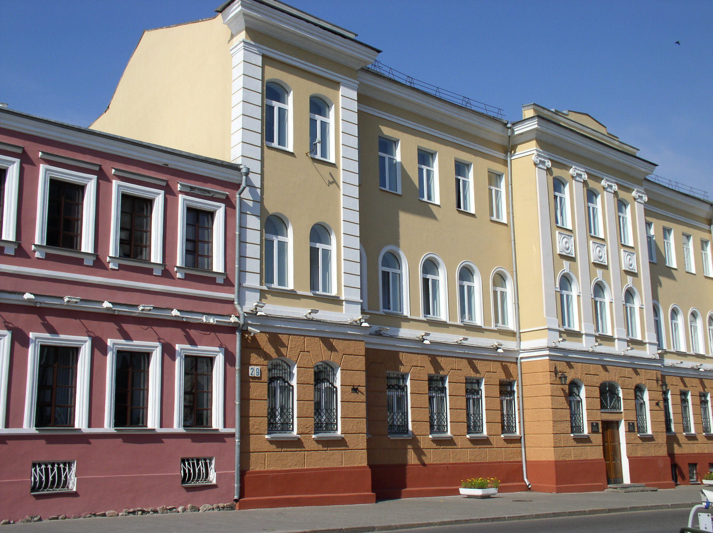 International street, 27, 29. Minsk, Belarus.